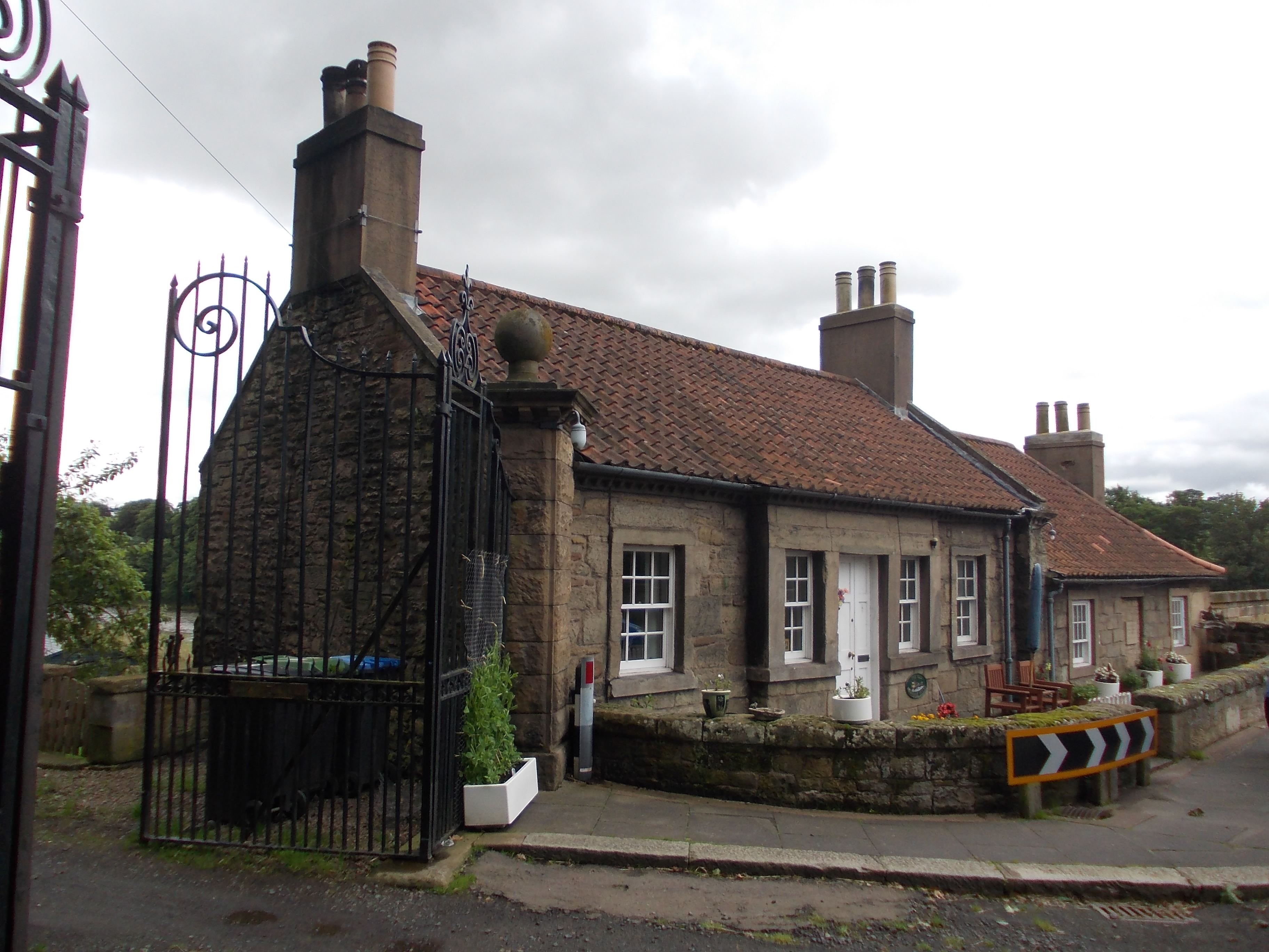 Marriage and Toll House at Coldstream Bridge built for resident engineer Robert Reid. The house appears as a one storey cottage, but it rests on two storeys of unwindowed cellars built against the bridge approach itself to bring it up to the level of the road.